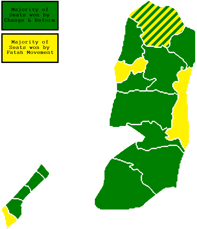 Rsults of 2006 Palestine election